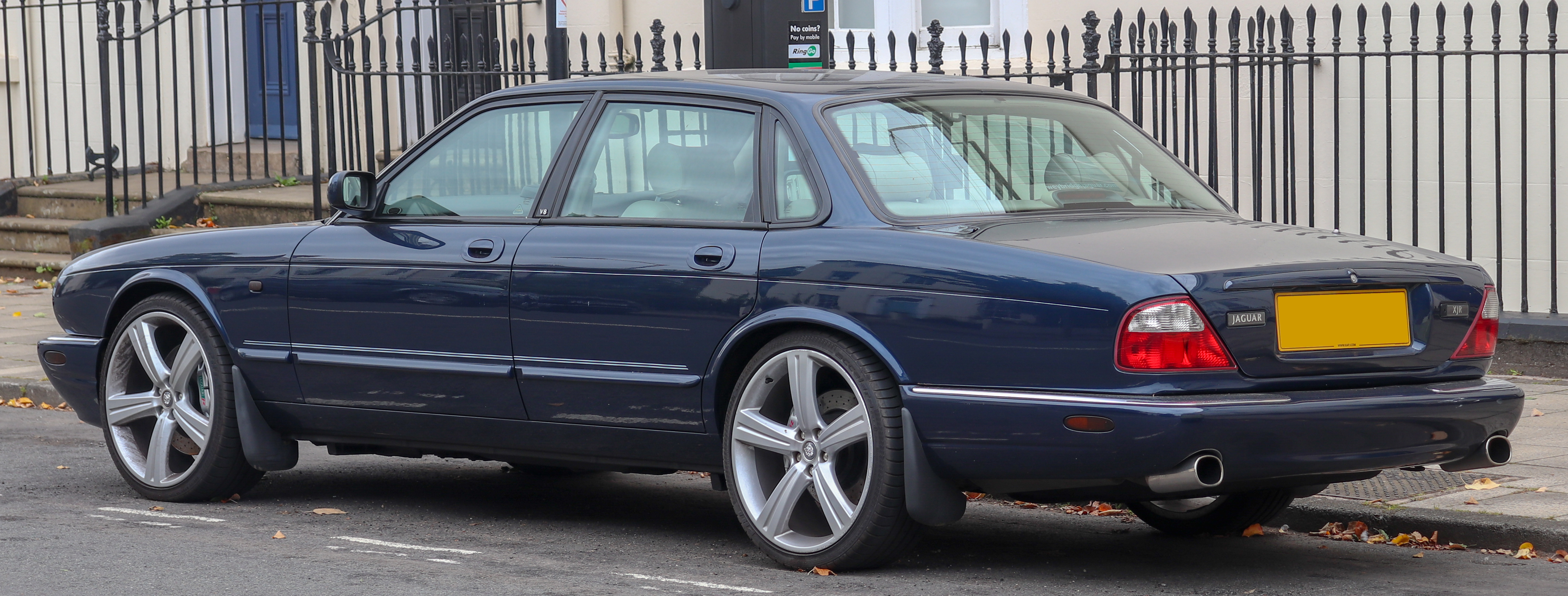 1998 Jaguar XJR V8 Automatic 4.0 Rear Taken in Leamington Spa